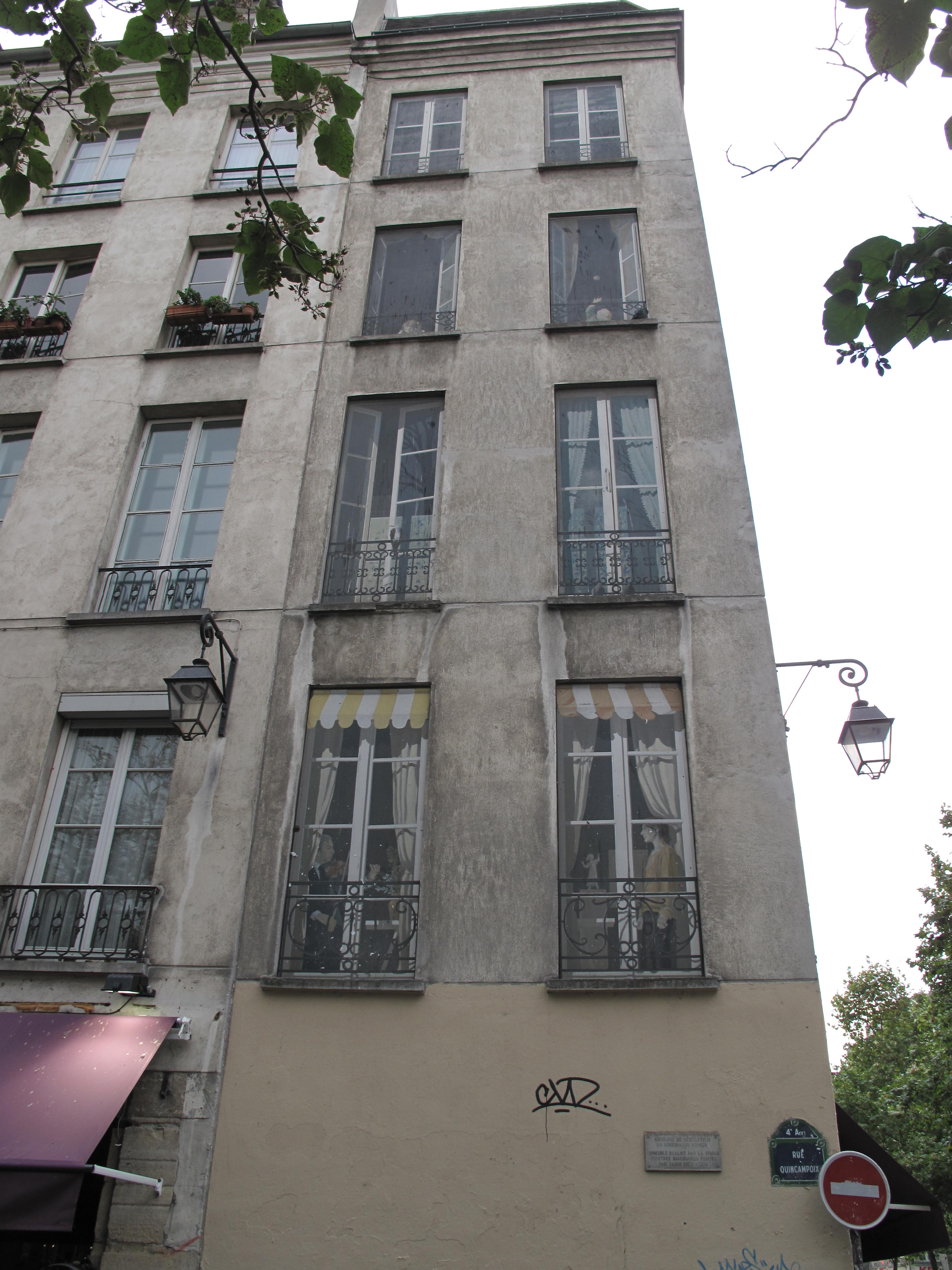 Ventilation tower covered by drawings in trompe-l'oeil. Rue Quincampoix, Paris 4e arr.